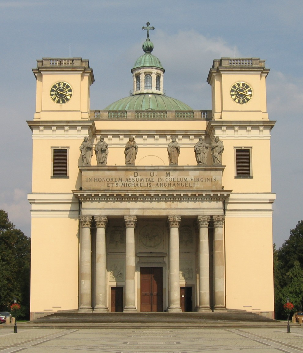 Cathedral, Vác